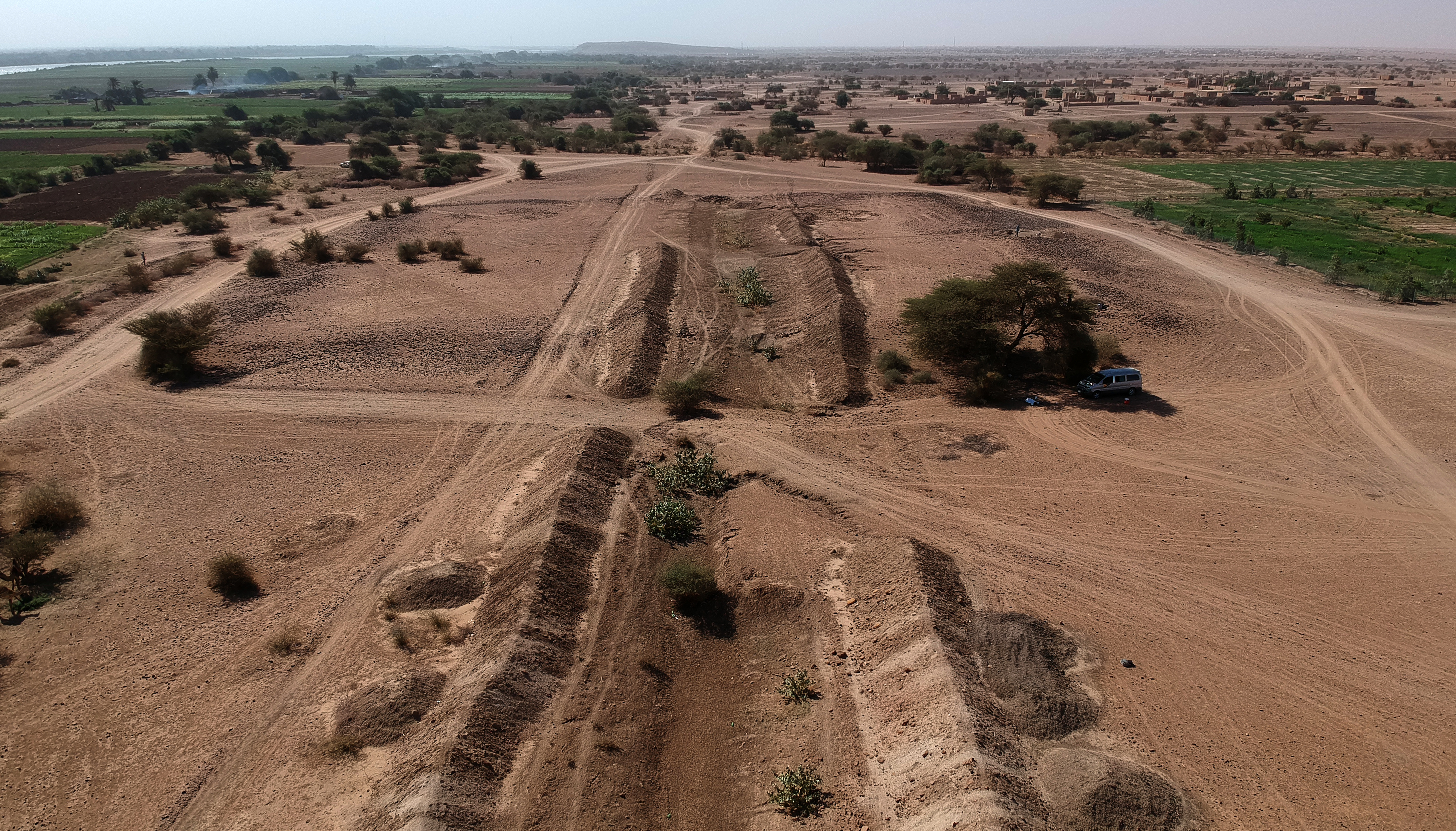 Ruins of the early medieval fort cut by a modern irrigation channel